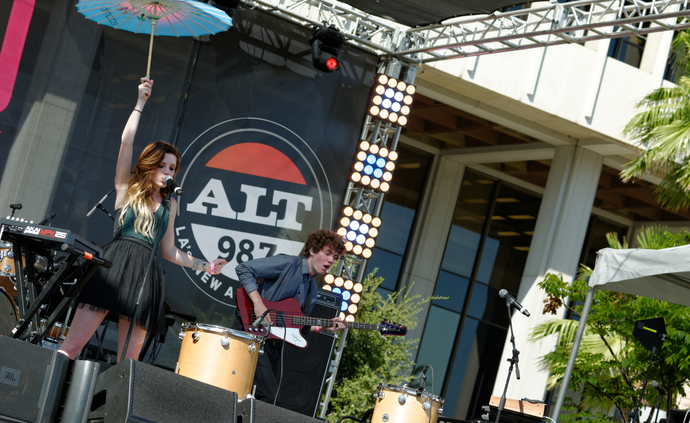 Echosmith performing live at Grand Park in downtown Los Angeles California on Friday July 4th, 2014. Part of the 2014 ALTimate 4th of July Block Party presented by Grand Park and L.A. radio station ALT 98.7 FM.